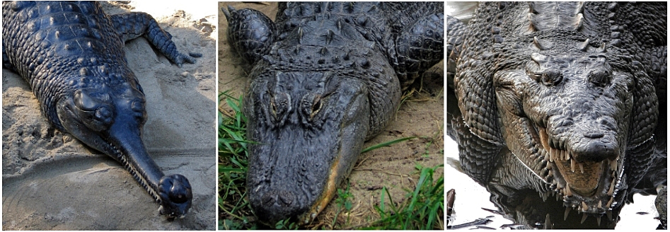 Comparison between the snouts of gavial, alligator, and crocodile. Based on the following photos: Image:Crocodylus acutus jalisco mexico.jpg, Image:American Alligator.jpg and Image:Gharial san diego.jpg. (In the first vesion: Image:Gavialis gangeticus (Gharial, Gavial).jpg) Crocodylus acutus Alligator mississippiensis Gavialis gangeticus